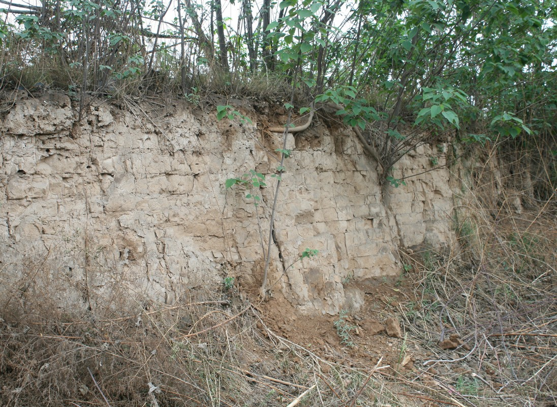 Ruins of Chang'an walls in Xian, China